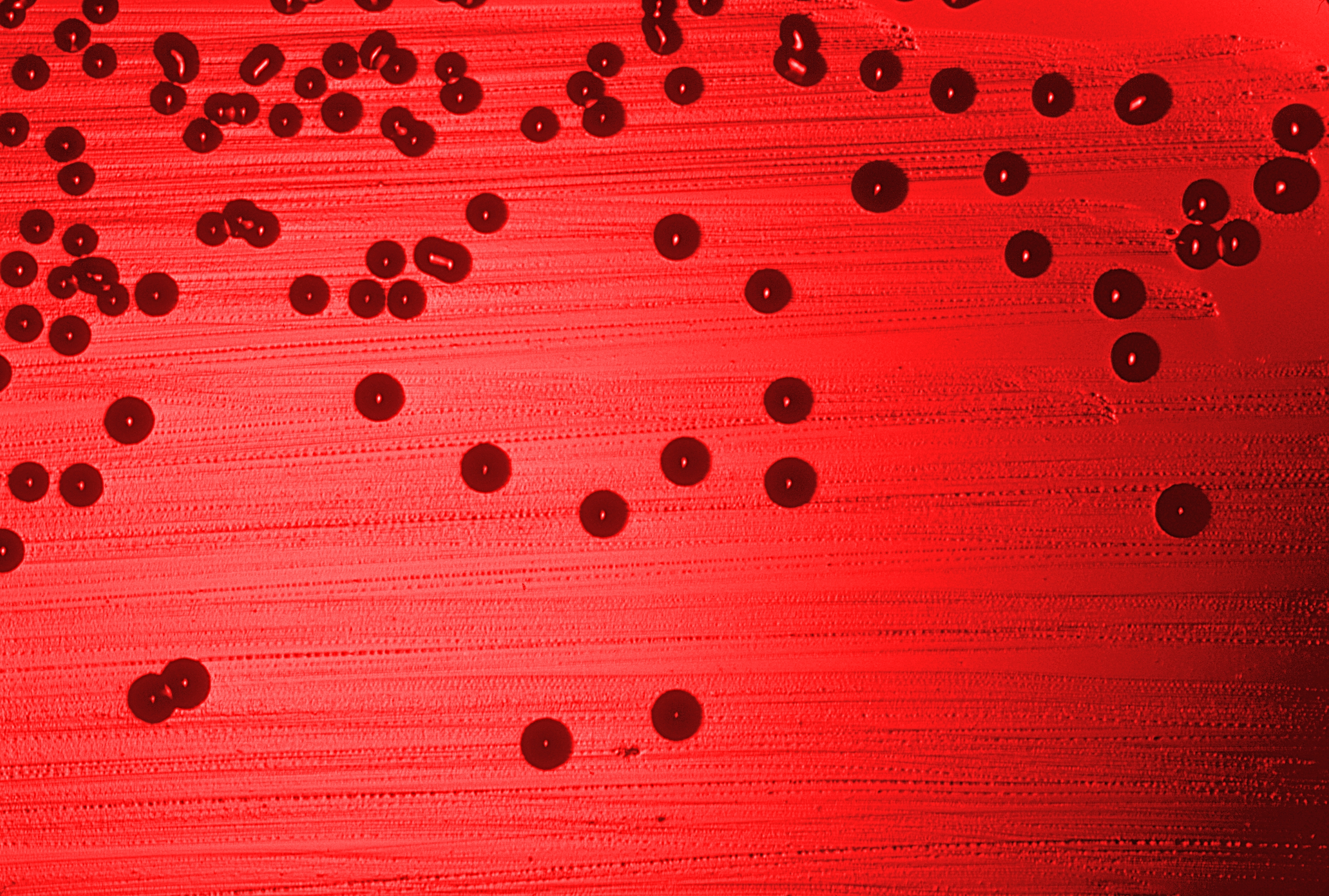 Haemophilus influenzae bacteria cultured on a blood agar plate. Obtained from the CDC Public Health Image Library. Image credit: CDC/Dr. W.A. Clark (PHIL #1617), 1977.